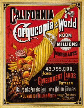 A Californian poster featuring a cornucopia